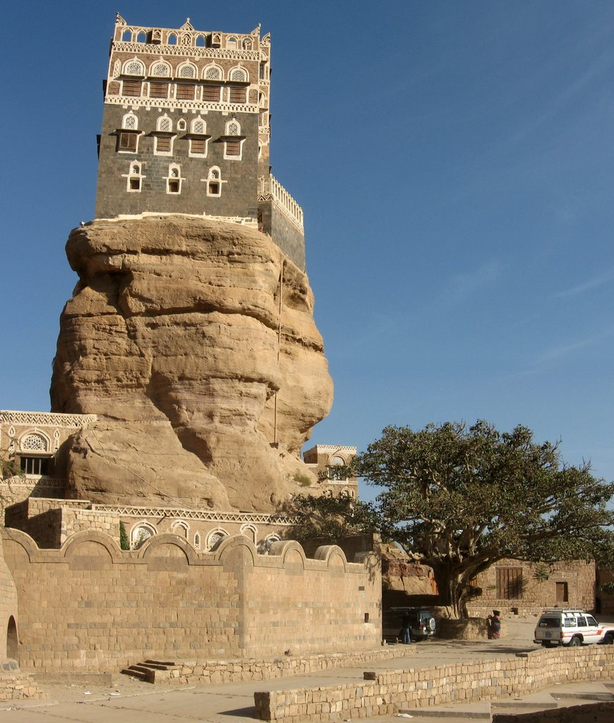 The Imam's Palace: Dar al-Hajar rock house, in Whadi Dhahr, Yemen. "Looks smaller than the effective dimension."200612_Yemen-37